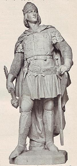 Monument commemorating Louis V, Duke of Bavaria, called the Brandenburger, in the former Siegesallee in Berlin. Sculptor: Ernst Herter. The sculpture was unveiled on 7 November 1899.